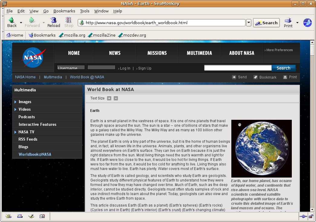 Screenshot of the web browser Seamonkey 1.1.9 on ubuntu